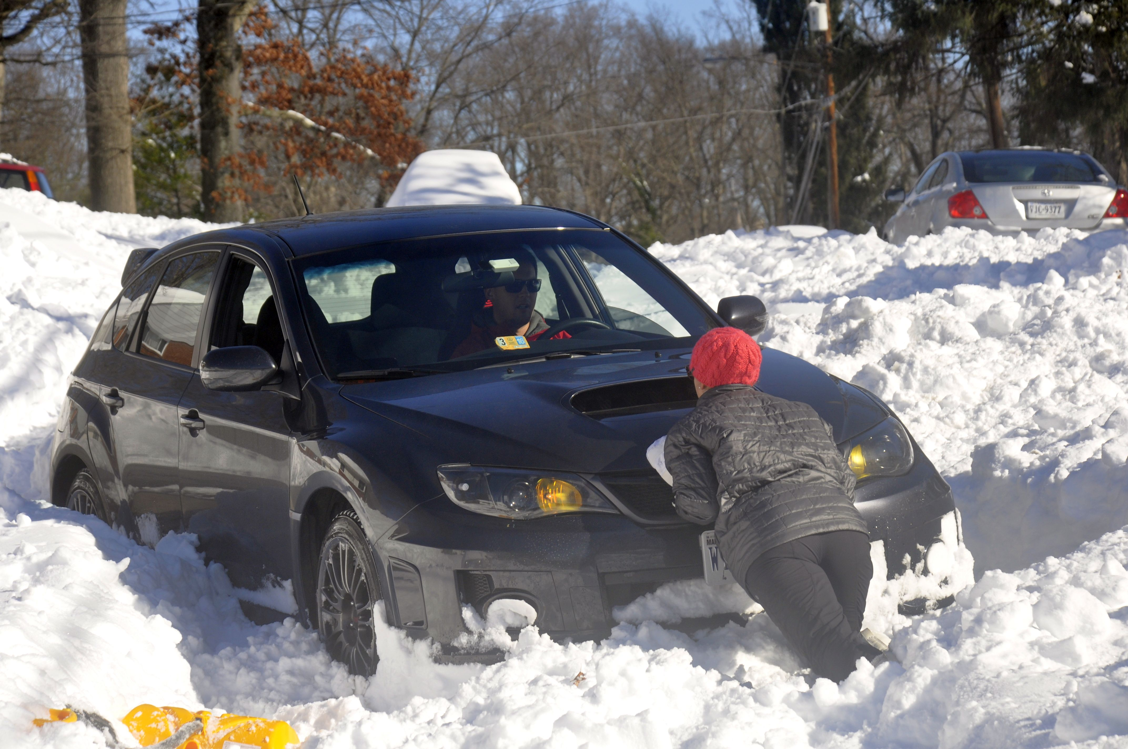 Aftermaths of January 2016 United States blizzard in Fairfax Villa neighborhood in Fairfax, Virginia.